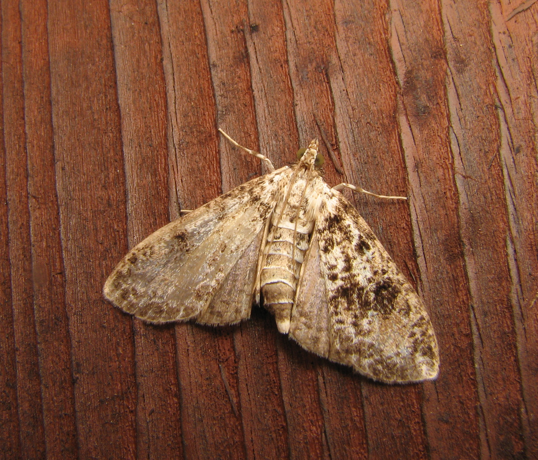 Palpita magniferalis Churchville Nature Center, Bucks County, Pennsylvania, USA. Bugguide